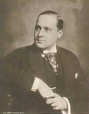 Austrian actor and director Felix Basch, photograped by Nicola Parscheid